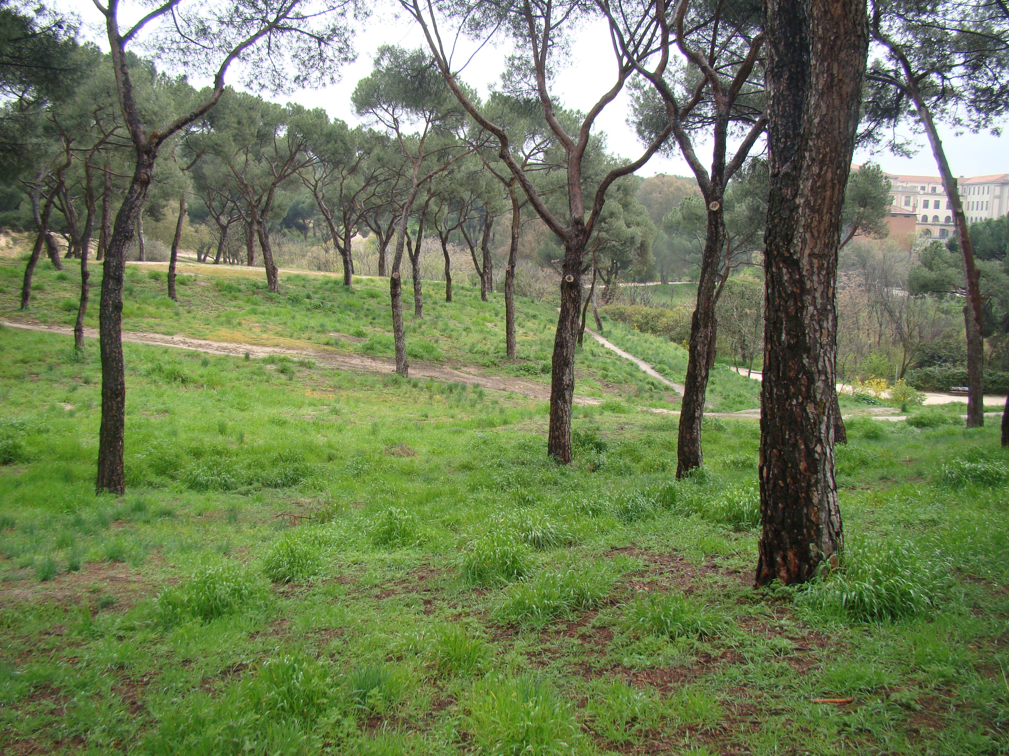 Park of the Dehesa de la Villa, in Madrid (Spain)